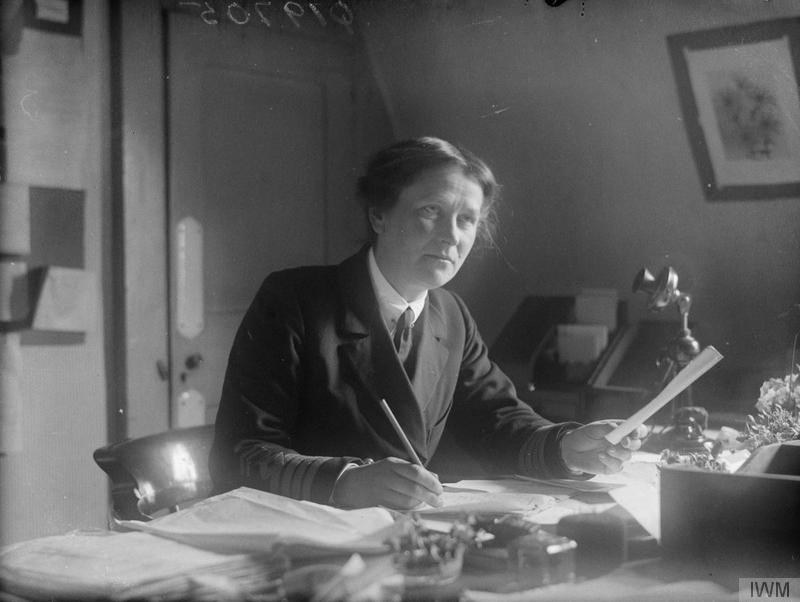 The Women's Royal Naval Service on the Home Front, 1917-1918 A portrait of Dr Dorothy Hare, Assistant Medical Director WRNS, at her desk.